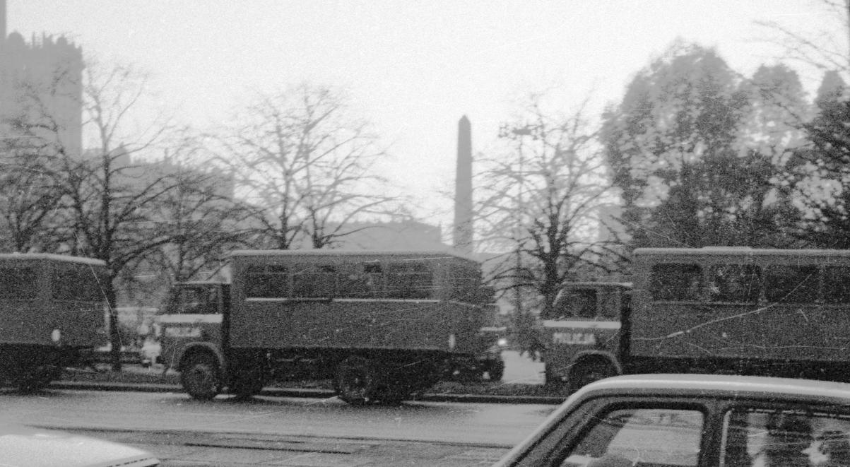 Riot police trucks visible during return from funeral of Jerzy Popiełuszko at Marszałkowska Street between Żoliborz and Center of Warsaw.